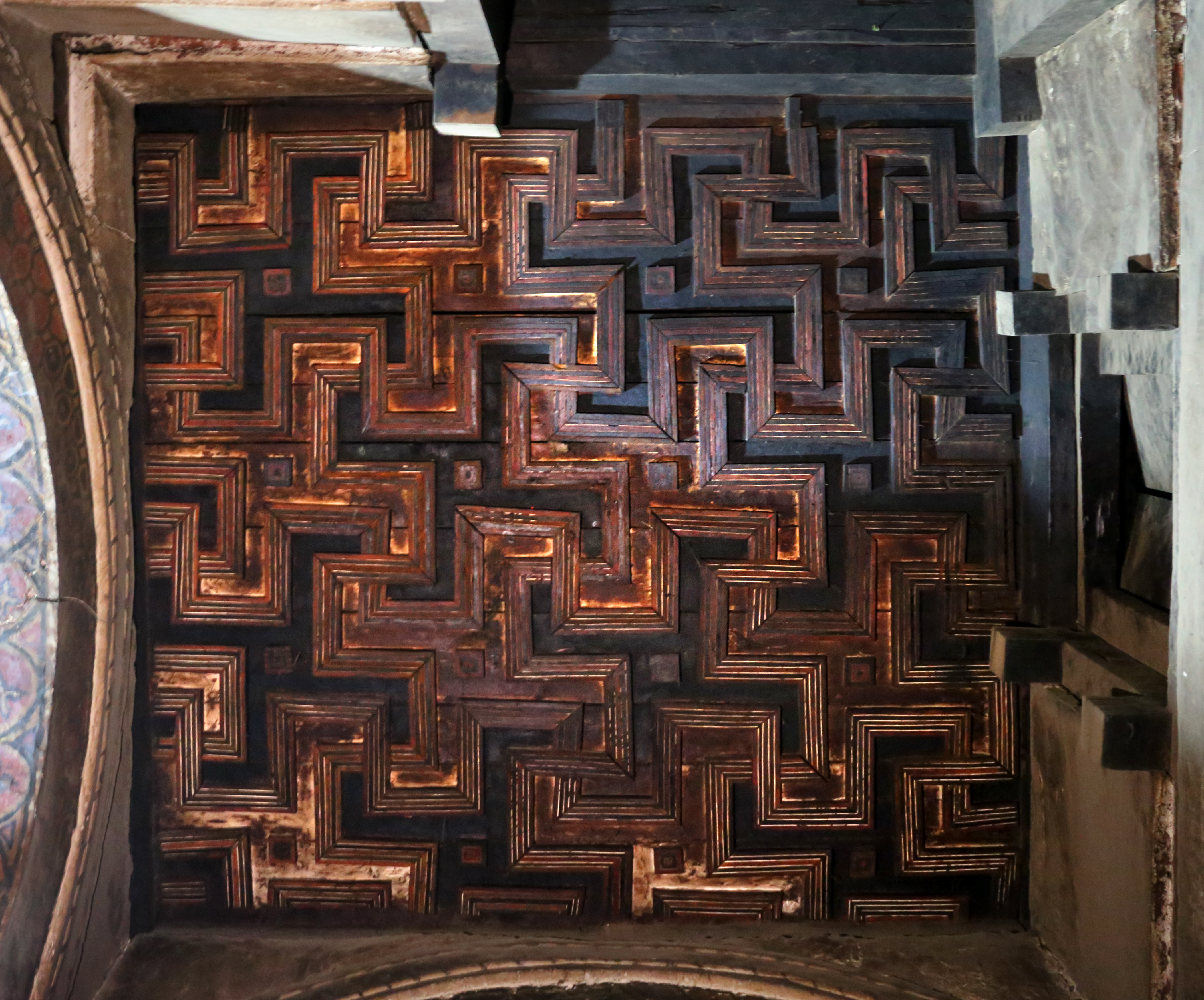 Yemrehanna Krestos - Interior